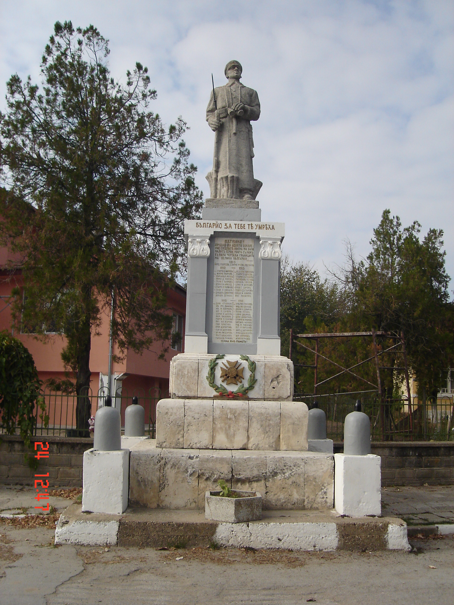 Krivnya, Region Ruse, Bulgaria